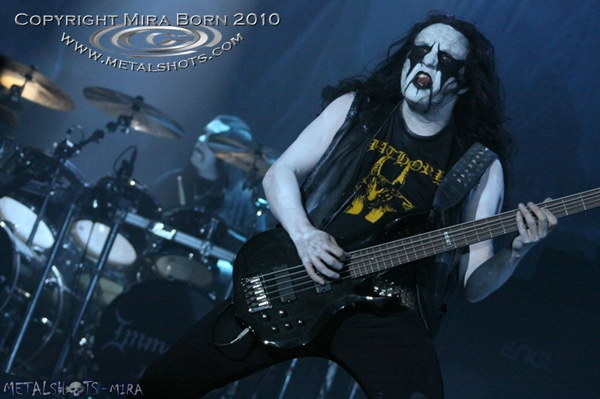 Apollyon during the Immortal concert at the 2010 Wacken Open Air.